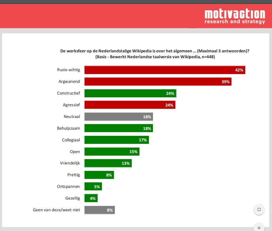 Working atmosphere on NL wikipedia 2015